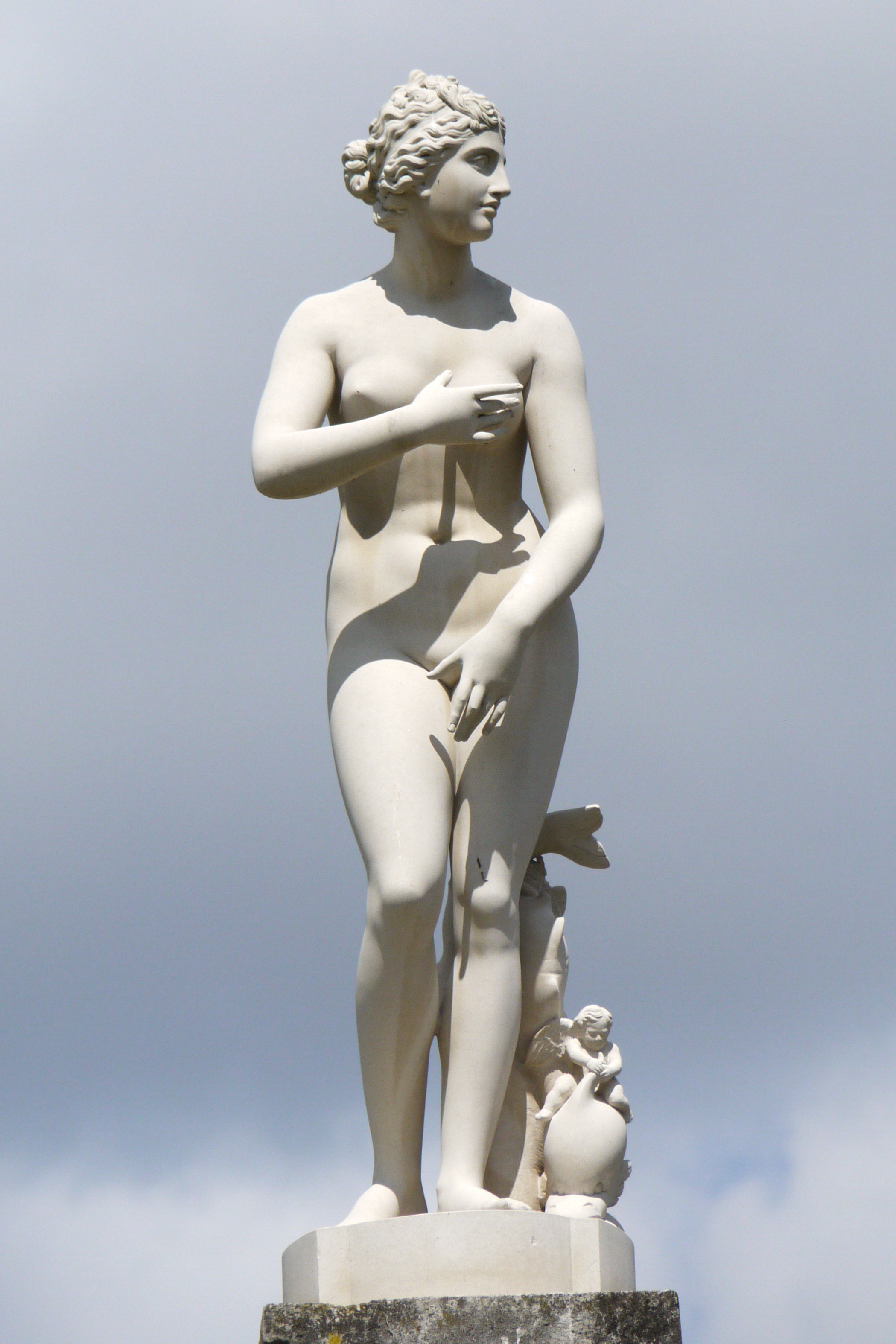 Statue of Venus in Chiswick House grounds.